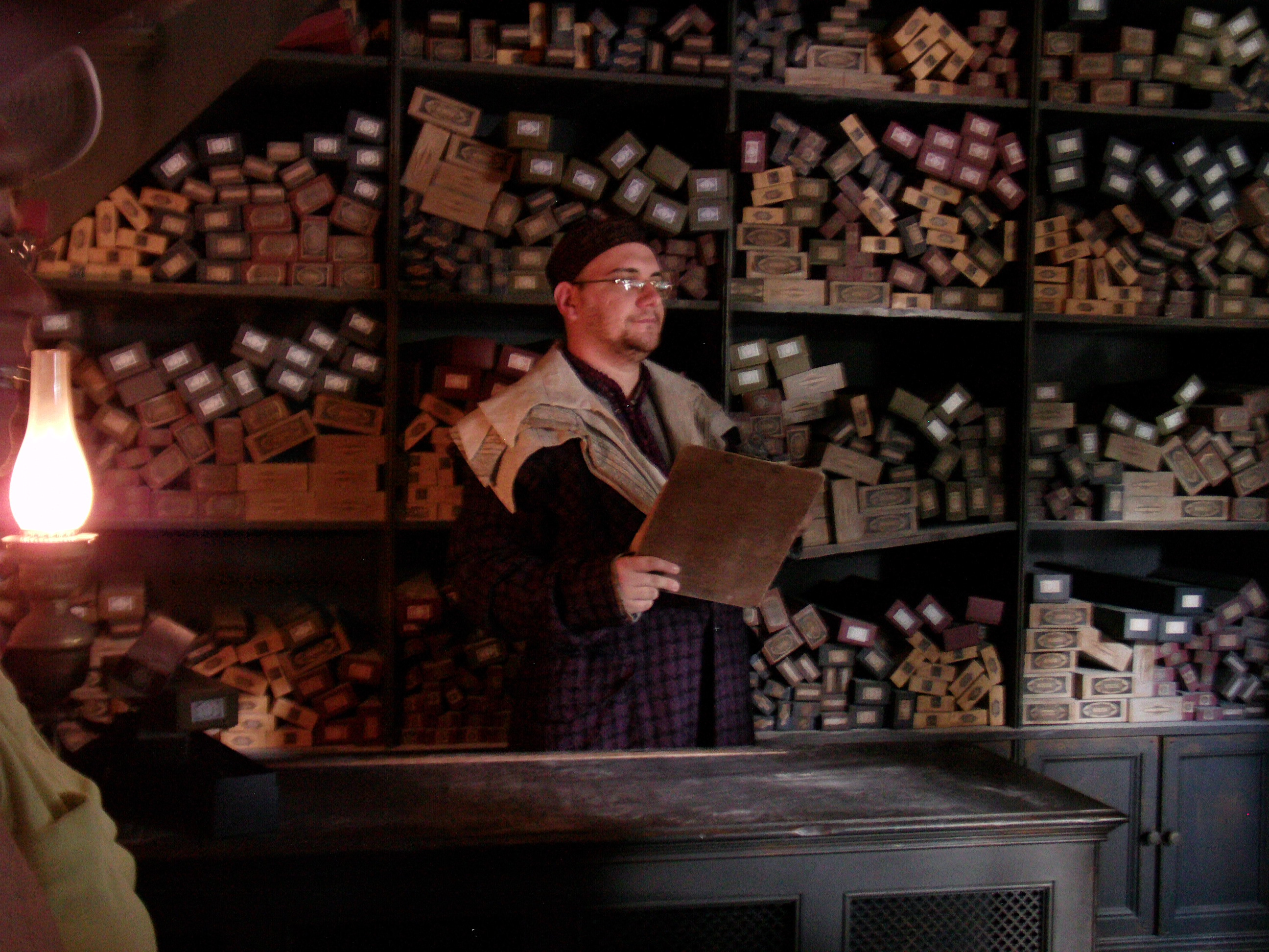 Inside Ollivanders at Islands of Adventure.